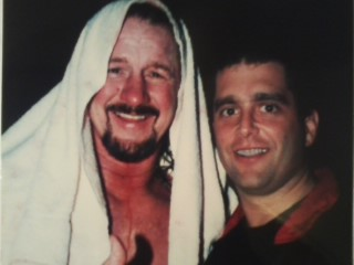 Cody Michaels and Terry Funk ECW